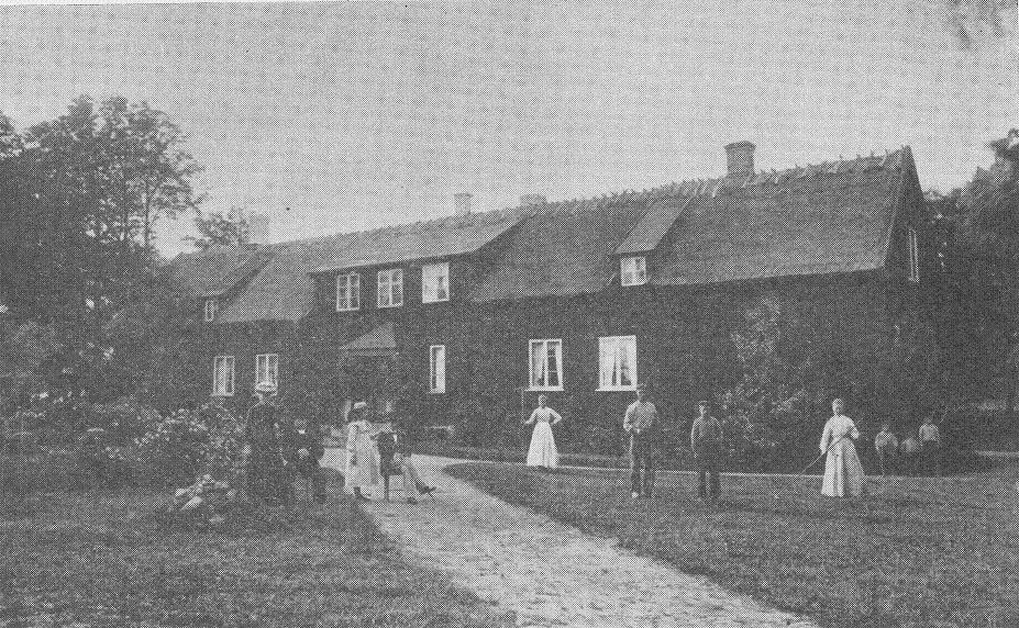 The old rectory of Okome, torn down in the 1910's